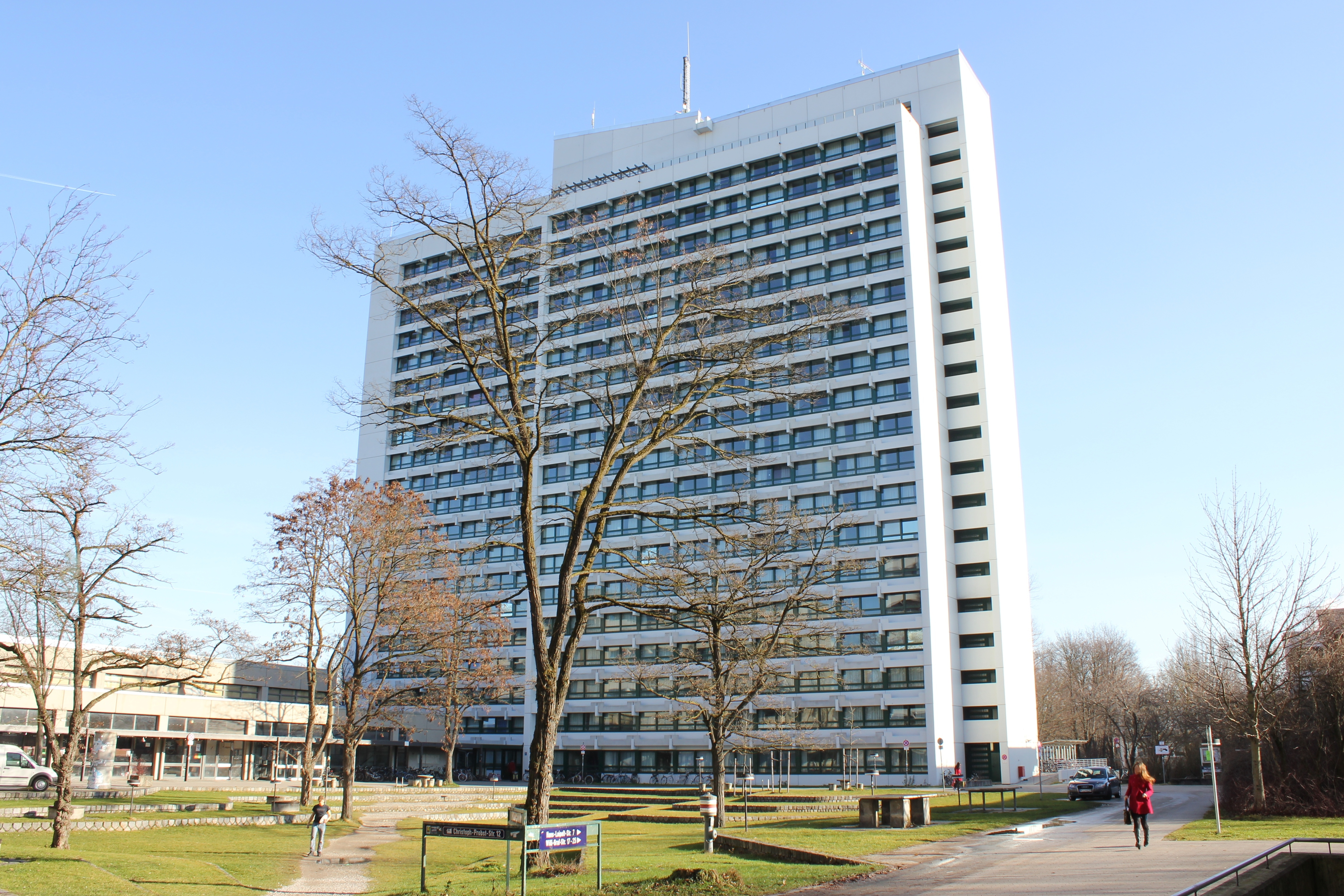 Studentenstadt Freimann in Munich Hanns-Seidel-Haus